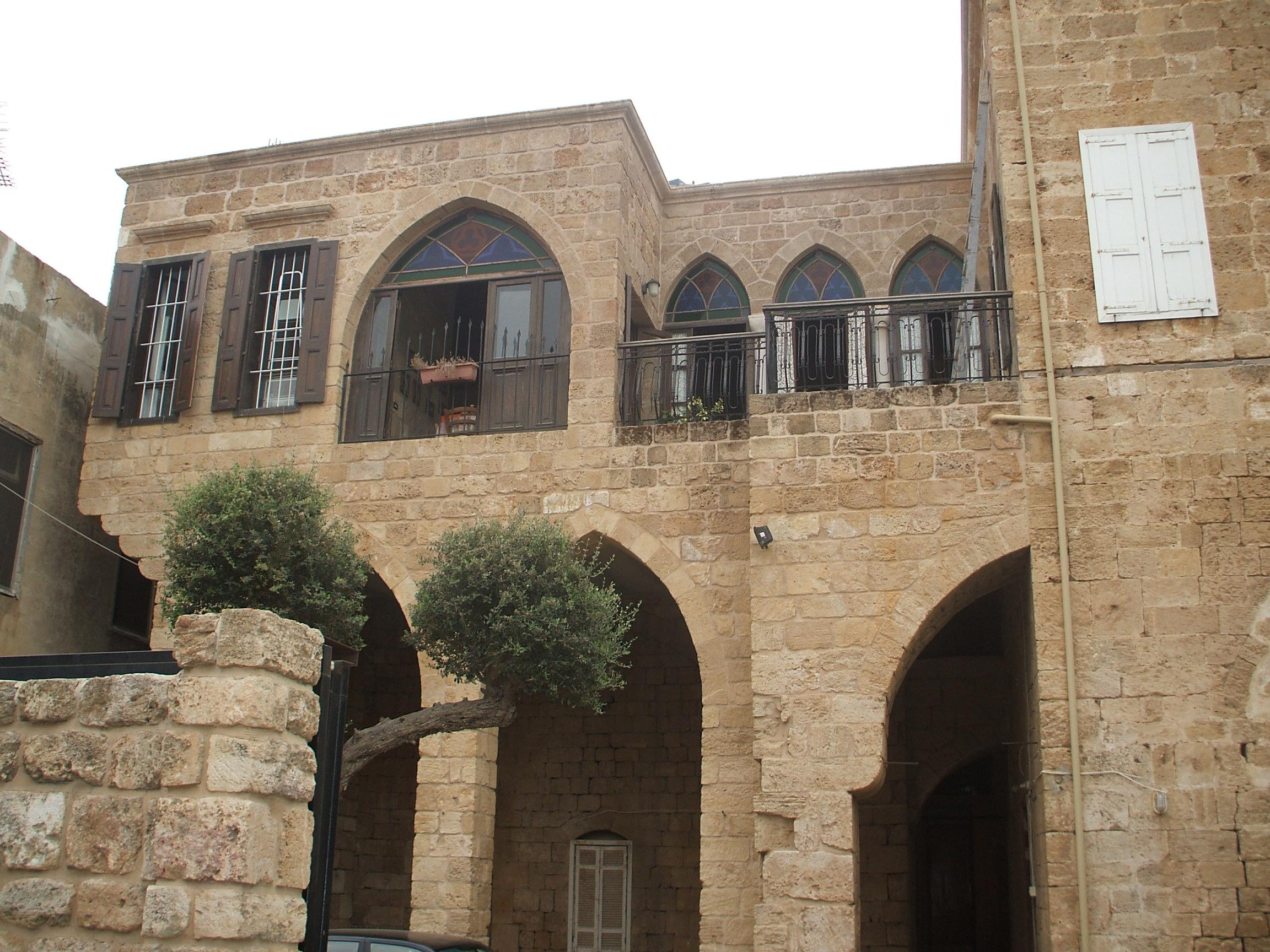 House in Batroun's Vieux Quartier